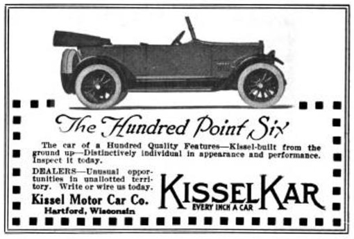 Kissel Motor Car Company - KisselKar - 1917